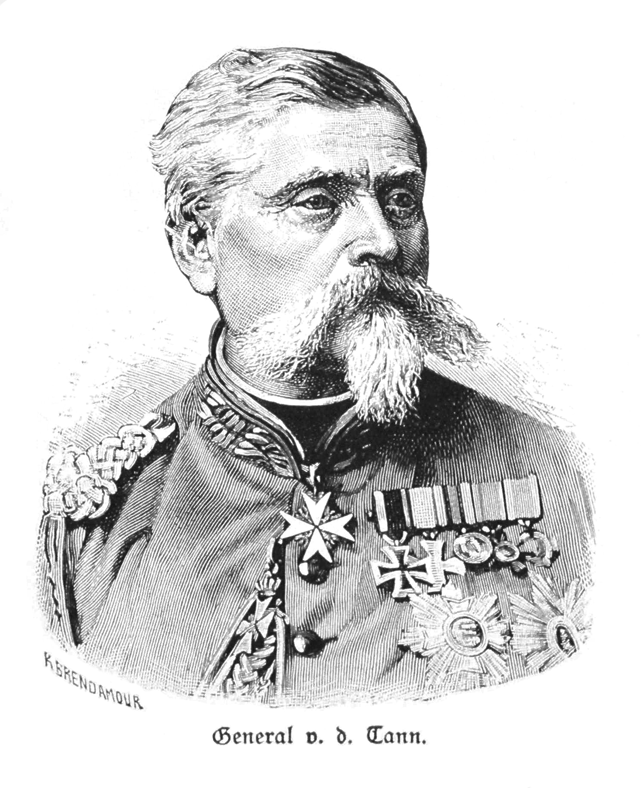 general von der Tann